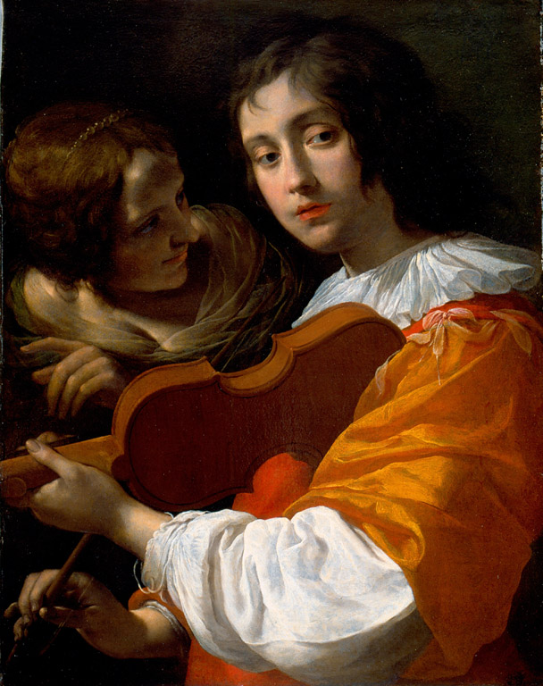 Youth with Violin